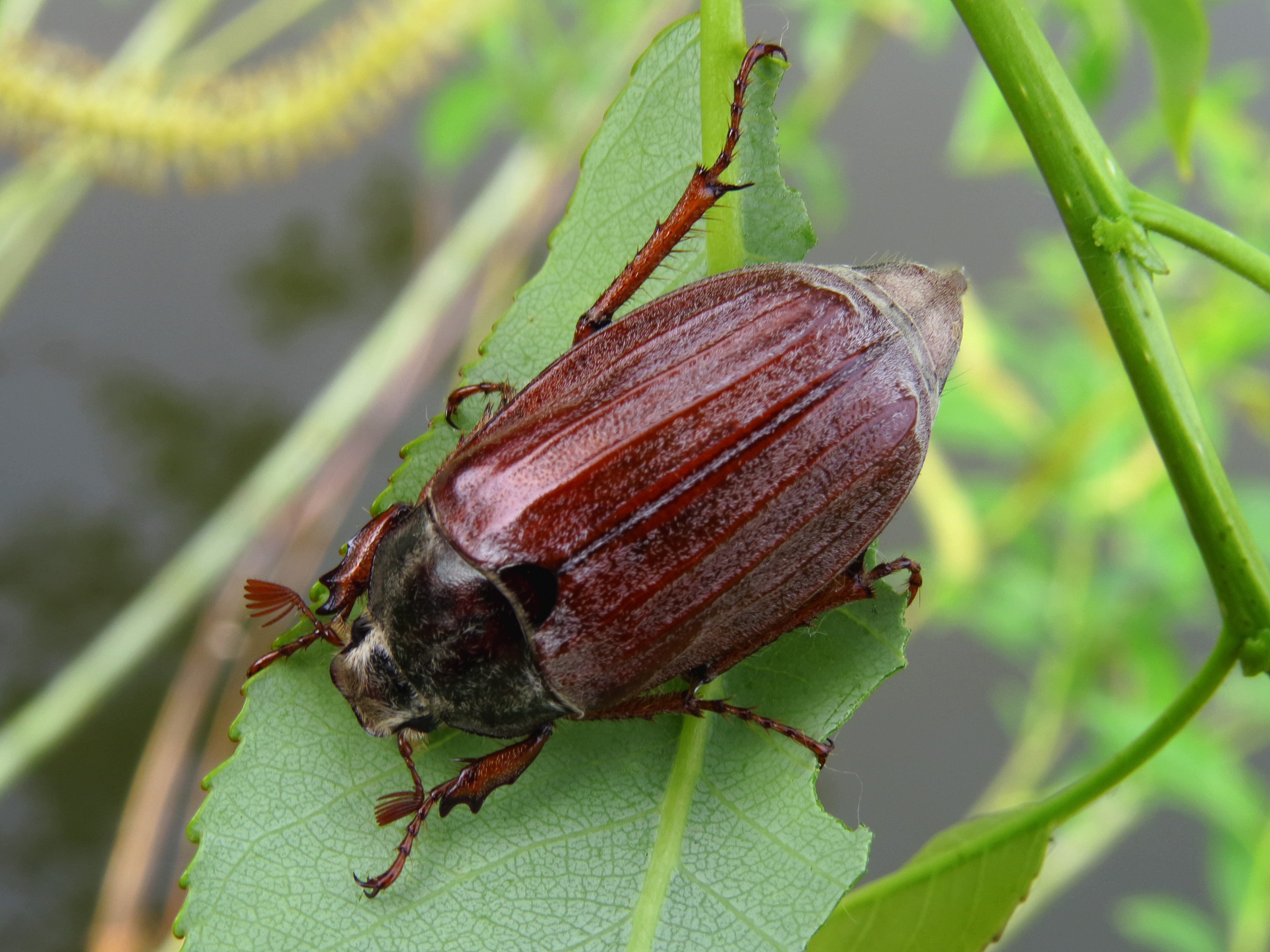 Melolontha hippocastani near Stara Desna lake, ~2km from Zazymya village, Brovary raion, Kiev oblast, Ukraine